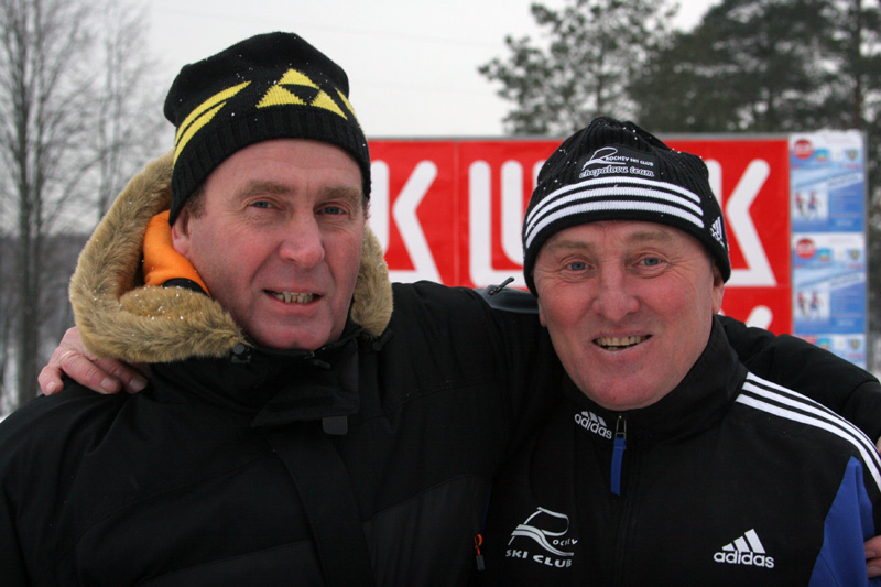 Nikolaj Zimjatov, Vasilij Rotchev